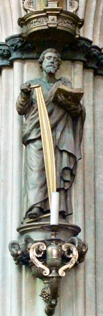 Statue of Simon the Zealot with the Saw he was martyred with as this attribute.